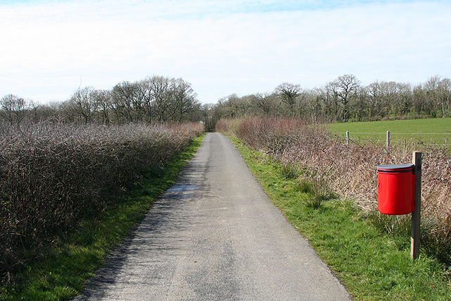 Cycleway in Highampton, Devon, Great Britain. On the course of the North Devon & Cornwall Junction Light Railway. Looking west-north-west. The old trackbed now serves as a cycle route from Highampton to Black Torrington, avoiding the A3072 road.